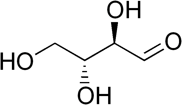 chemical structure of D-erythrose